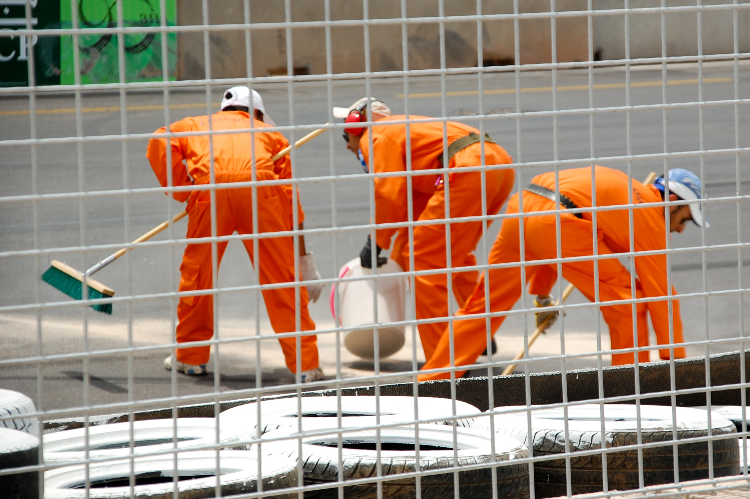 2010 FIA WTCC Race of Morocco - Course marshals remediations the track.Original description: WTCC Morocco 2010